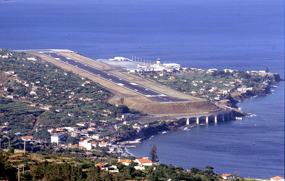 A very short, dangerous landingstrip, we were watching Airplains landing 10 to 15 times, often they were coming down on the landing strip and took off straight away otherwyse they would have finished in the sea. One is in the sea in the left side of the image.